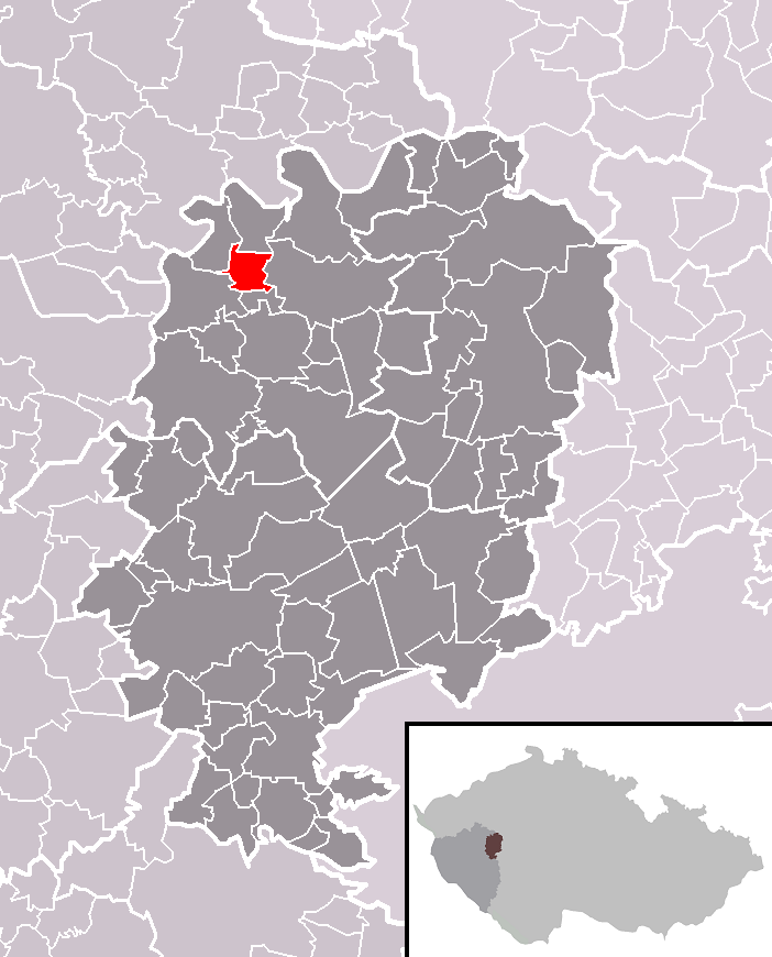 Location of Lhotka u Radnic municipality within Rokycany District and within identical administrative area of Rokycany as a Municipality with Extended Competence.